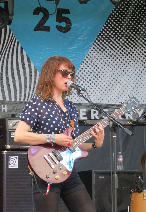 EX HEX at the Merge25 fest in the Cat's Cradle parking lot in Carrboro, NC on Saturday, July 26th, 2014.